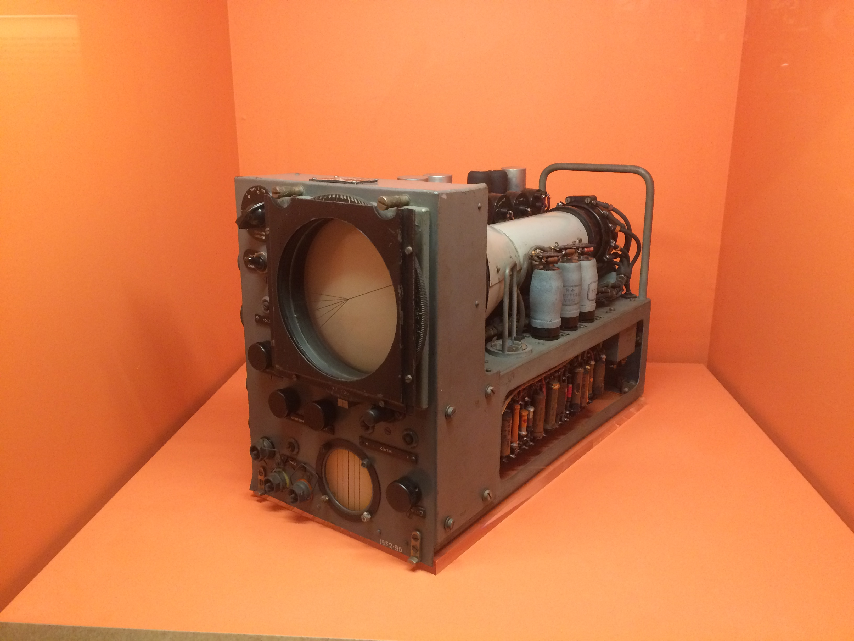 Production H2S radar display screen unit as flown during World War 2